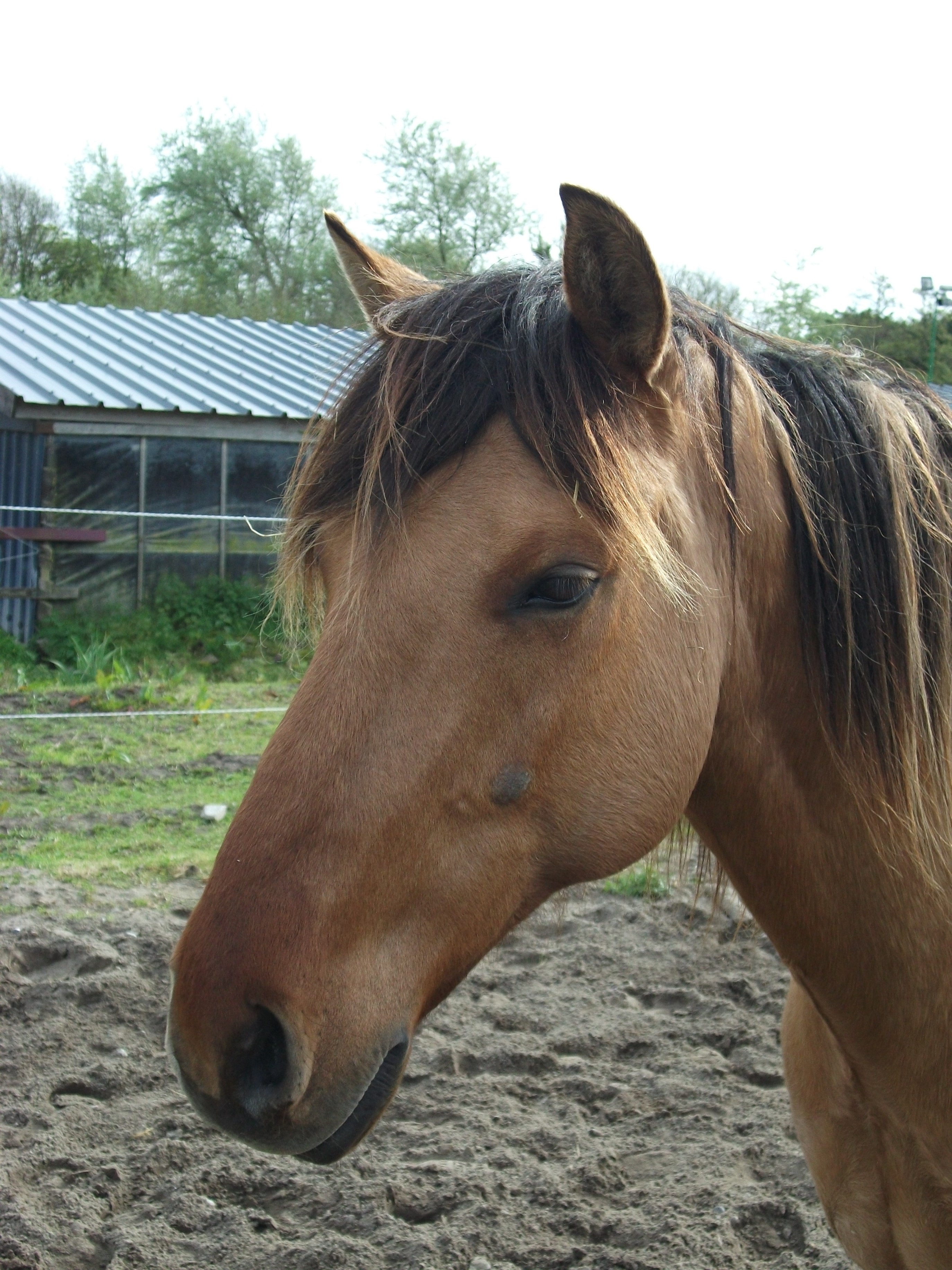 Henson horse, Baie d'Authie, Somme, France